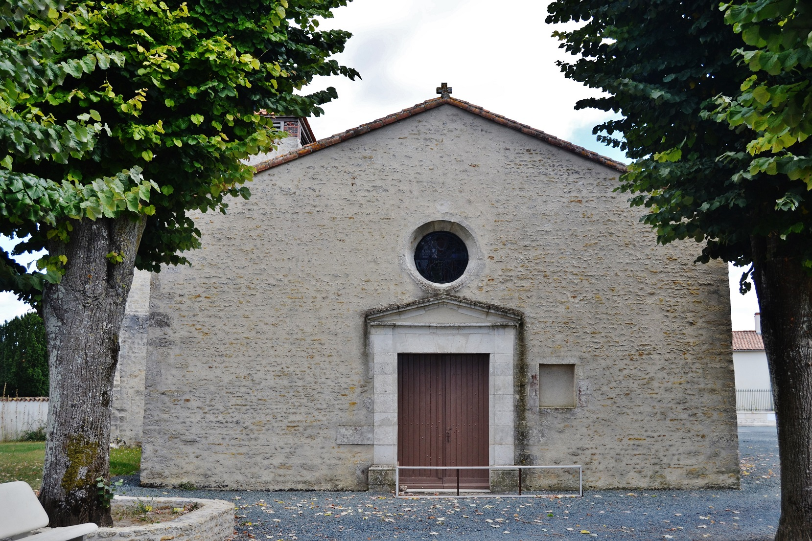 église Ste Radegonde